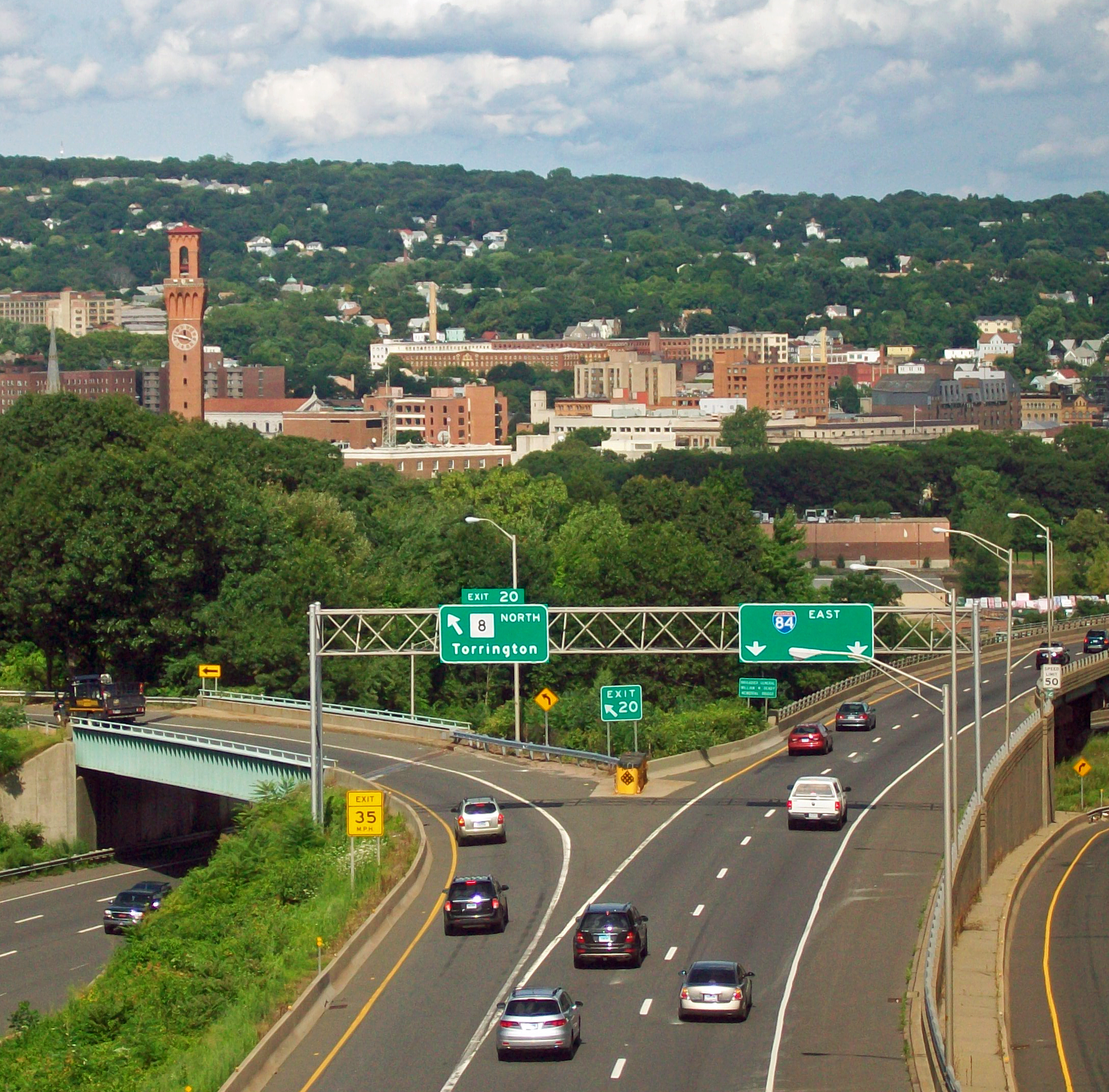 Interstate 84 approaching downtown Waterbury, CT, USA, and its landmark clock tower from the Highland Avenue overpass to the west.